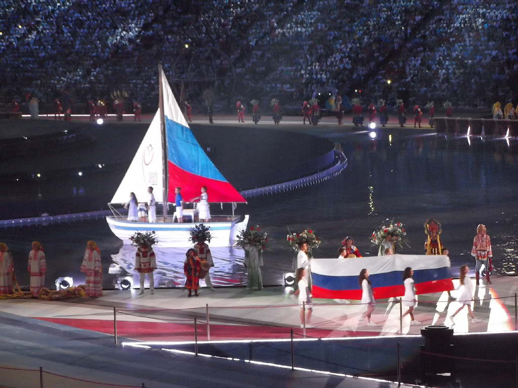 bring of flag of Russia in the opening of 2013 Summer Universiade in Kazan